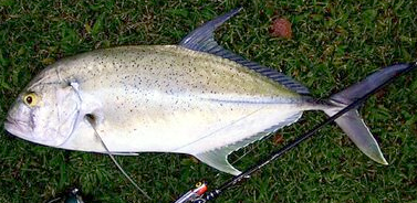 Brassy trevally from PNG